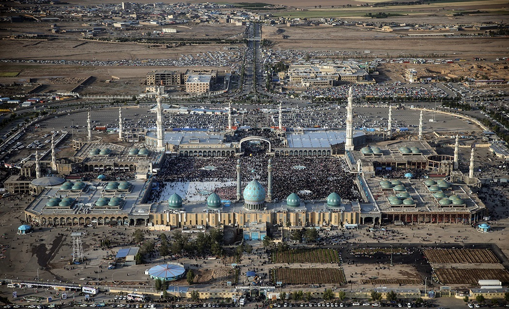 Mid-Sha'ban 1439 AH day, Jamkaran Mosque, Qom. main album